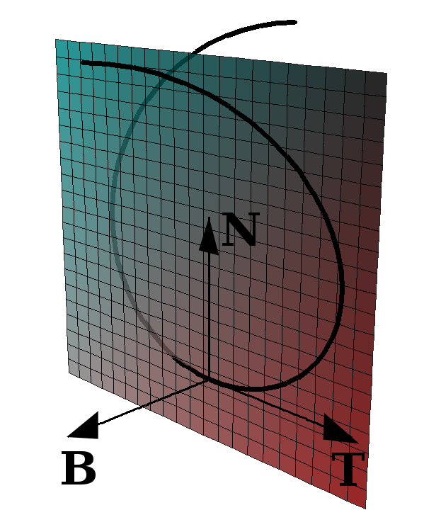 Illustration of the frenet frame. Created using and Javaview.de postprocessed with gimp.